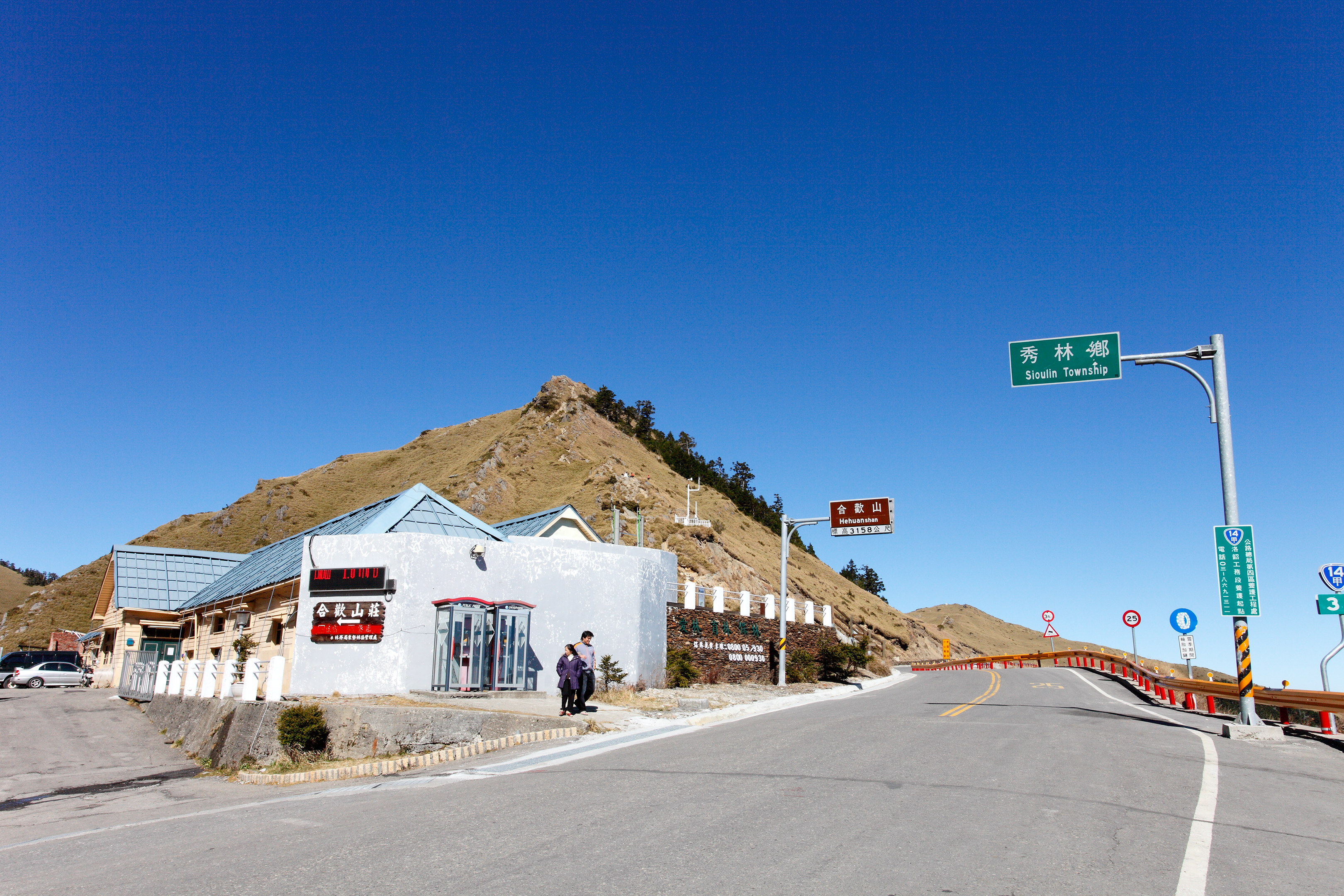 Hehuan Lodge, taken by MiNe.